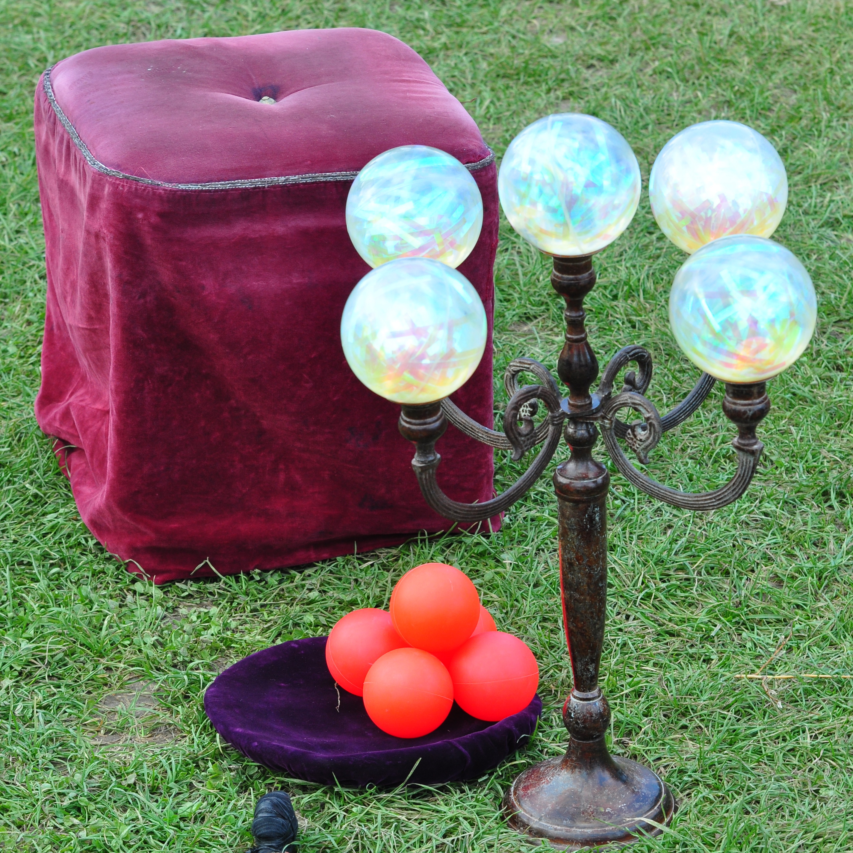 Theaterspektakel 2010 in Zürich-Wollishofen